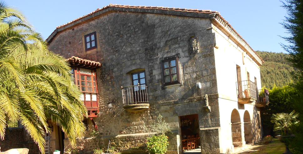 Marqués del Castañar's Palace Image